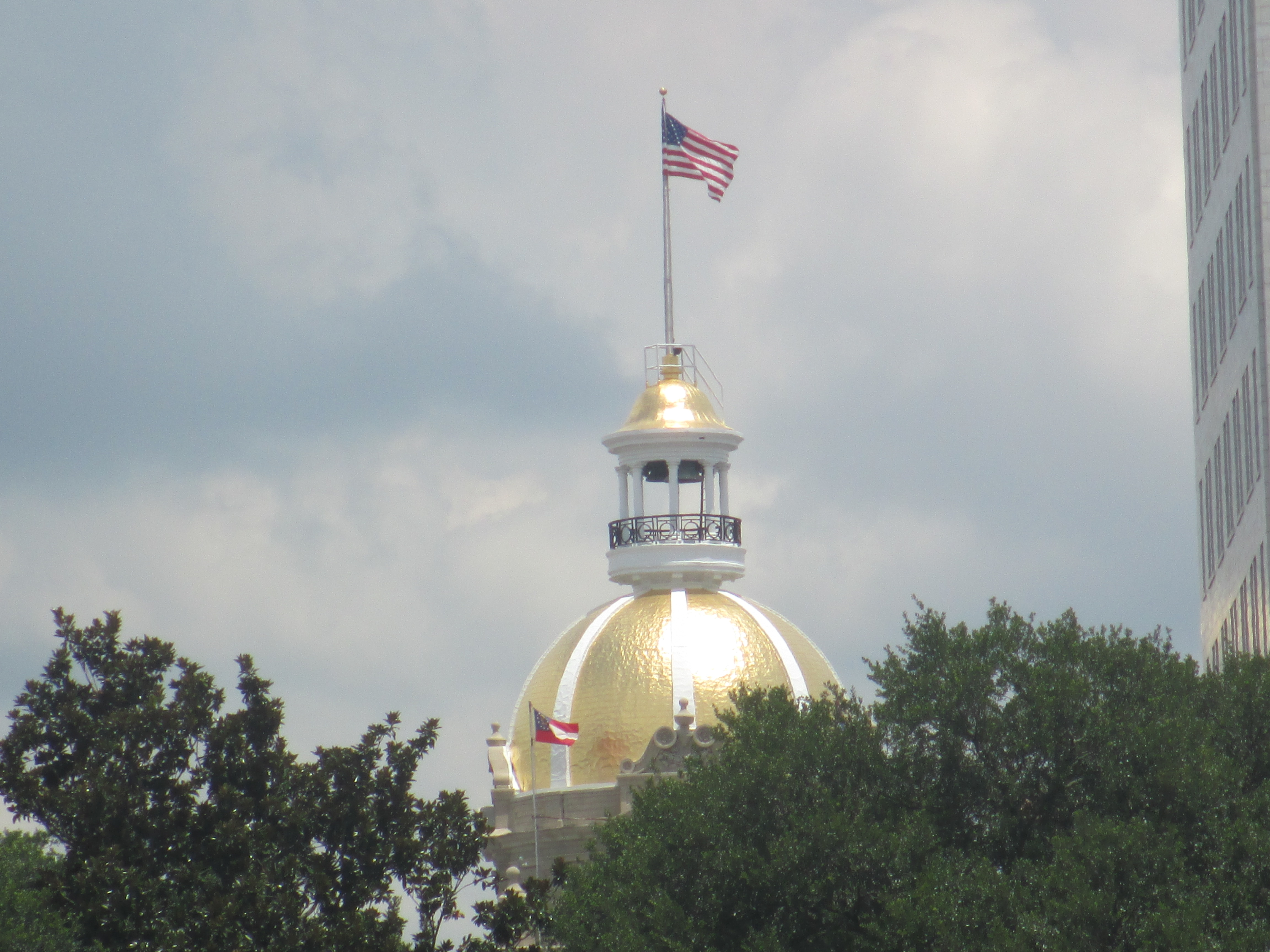 I took photo with Canon camera of city hall dome in Savannah, GA.